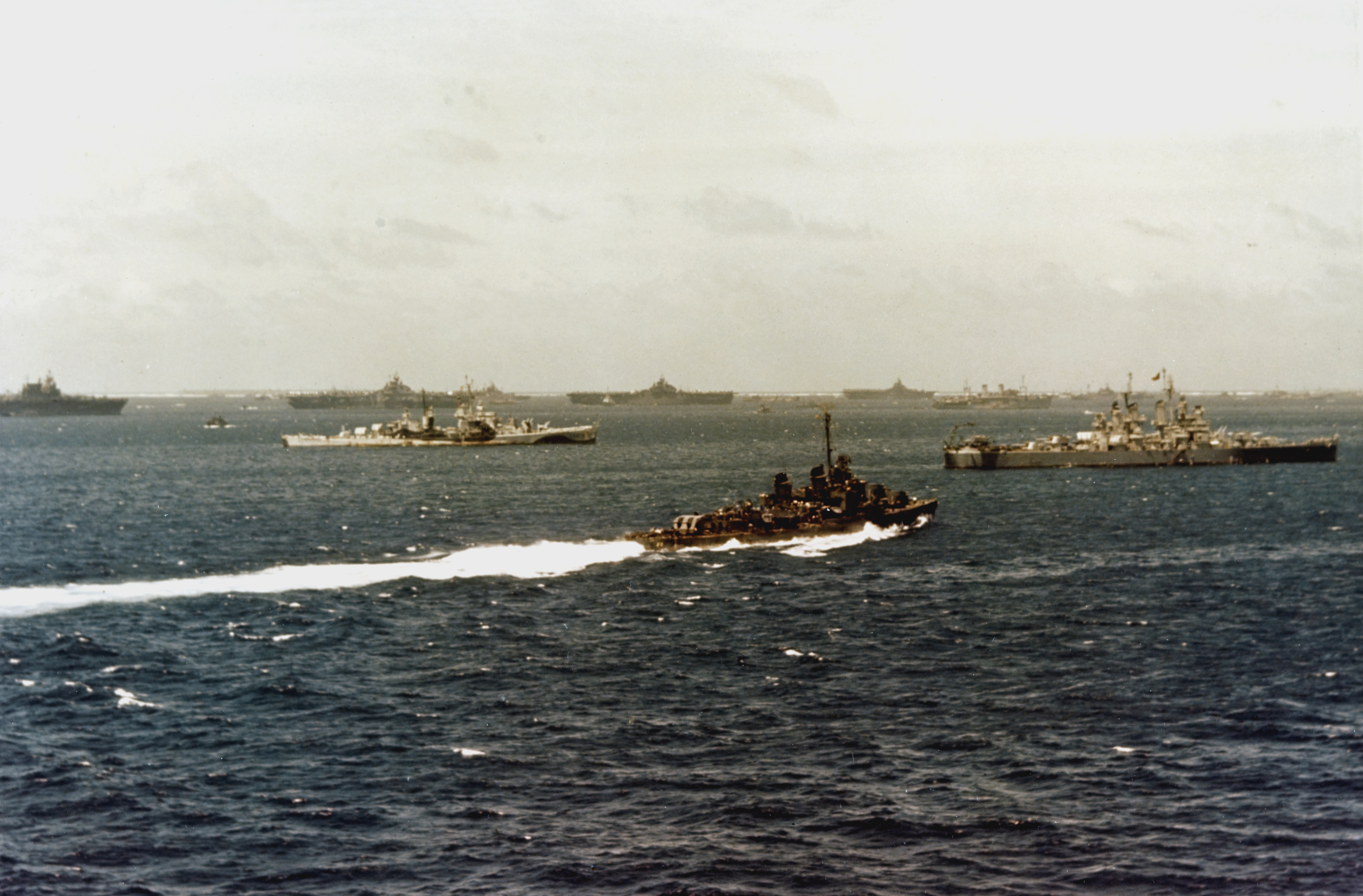 The U.S. Navy destroyer minelayer USS Shannon (DM-25) steams past task forces gathering for the Okinawa Operation at Ulithis Atoll, circa in March 1945. The ships in the near background include the light cruisers USS Flint (CL-97), in left center, and USS Miami (CL-89), at right. Three Essex-class aircraft carriers are anchored in the middle distance. USS Enterprise (CV-6) is at the far left.